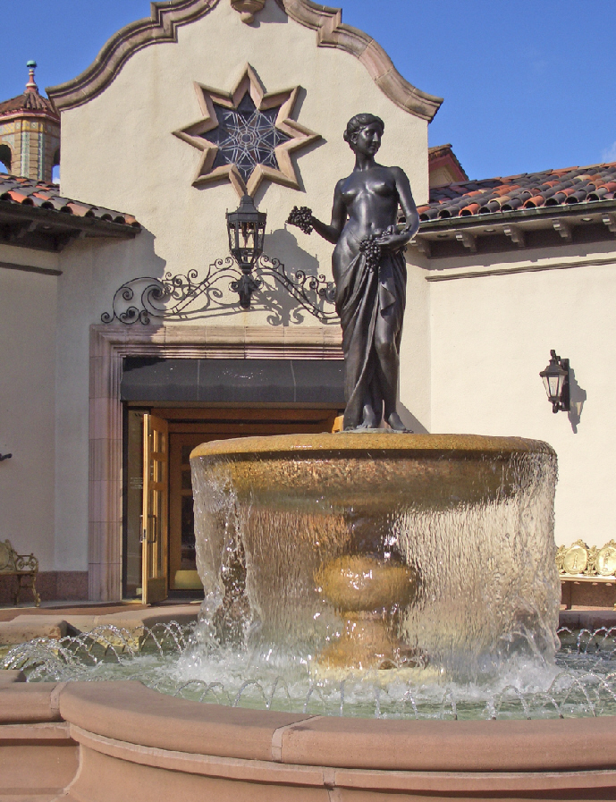 "Pomona, Goddess of Vinyards and Orchards," fountain sculpture by Donatello Gabbrielli, Kansas City, MO